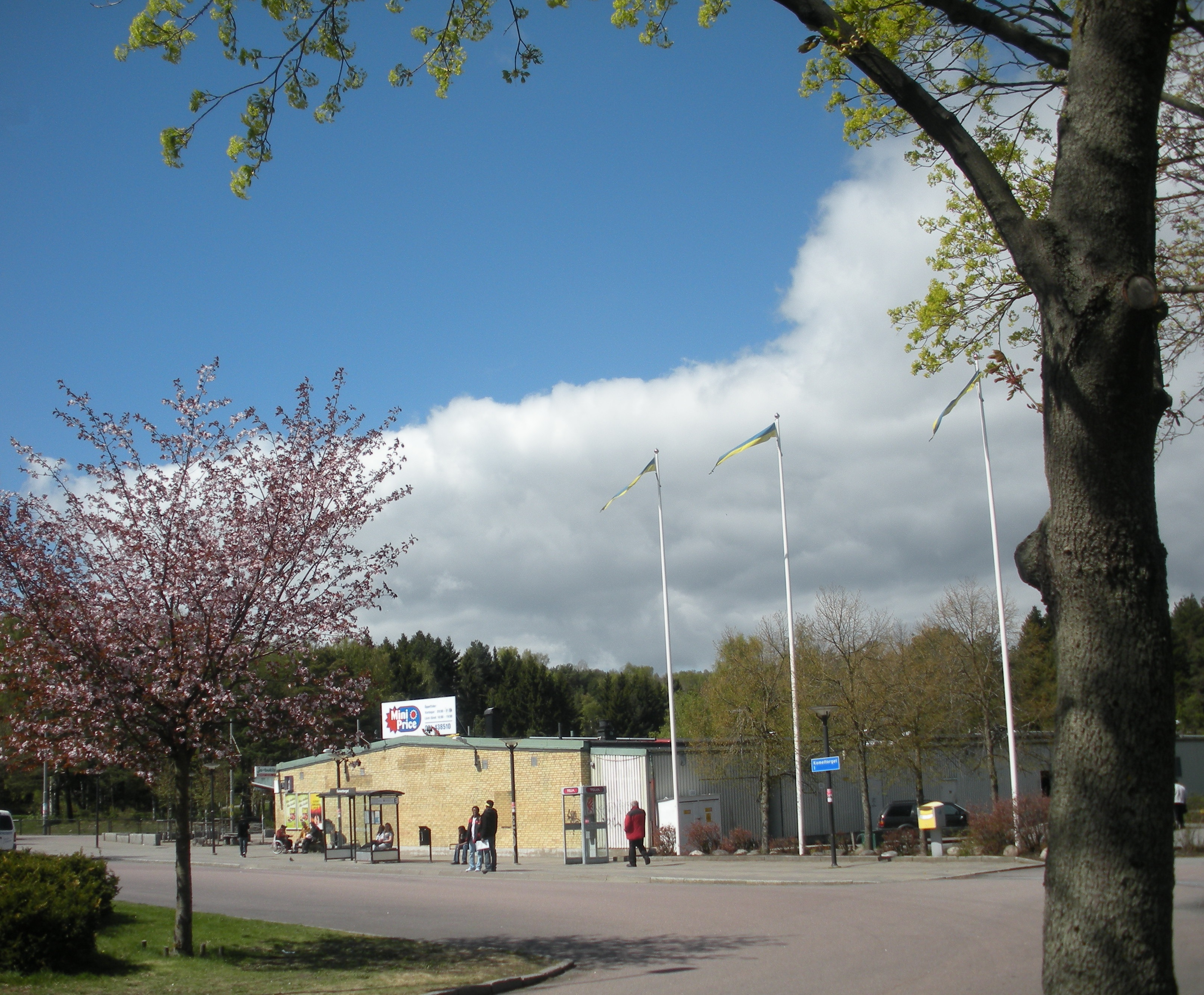 Komettorget in Bergsjön district, Gothenburg, Sweden